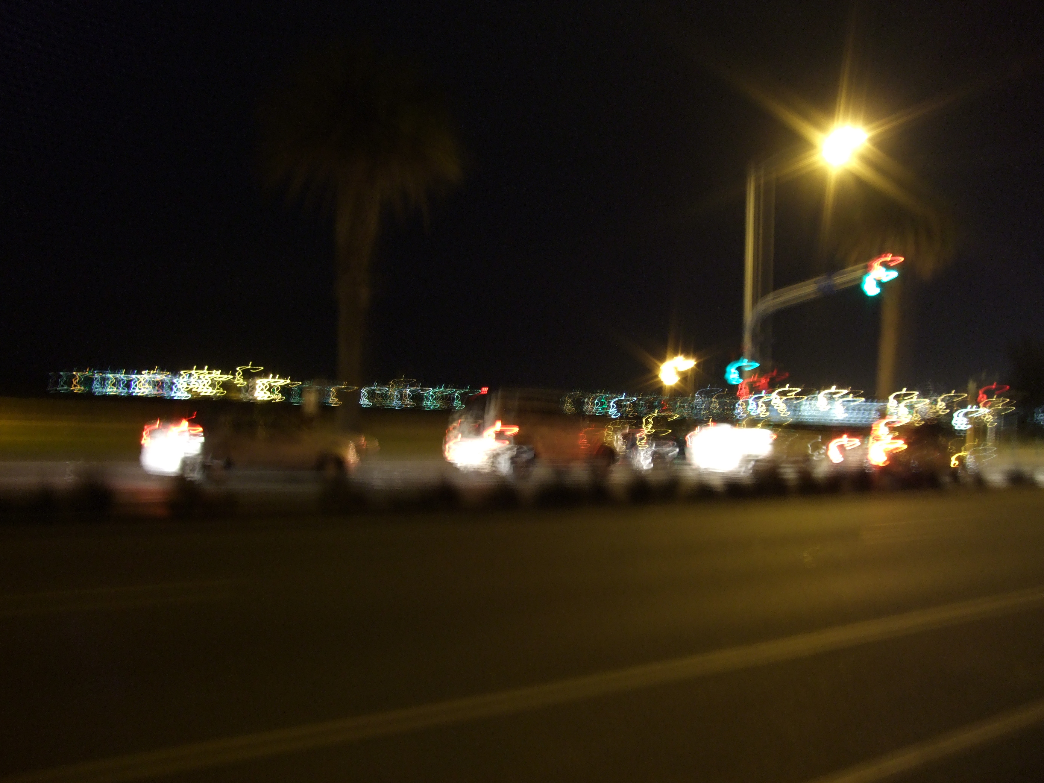 An example of motion blur with the camera lens